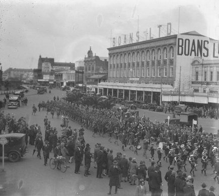 Boans department store, Perth, Western Australia. c.1928 Includes brass band playing in street with crowd gathered to listen and The Grand Central Shaftesbury Hotel in background.